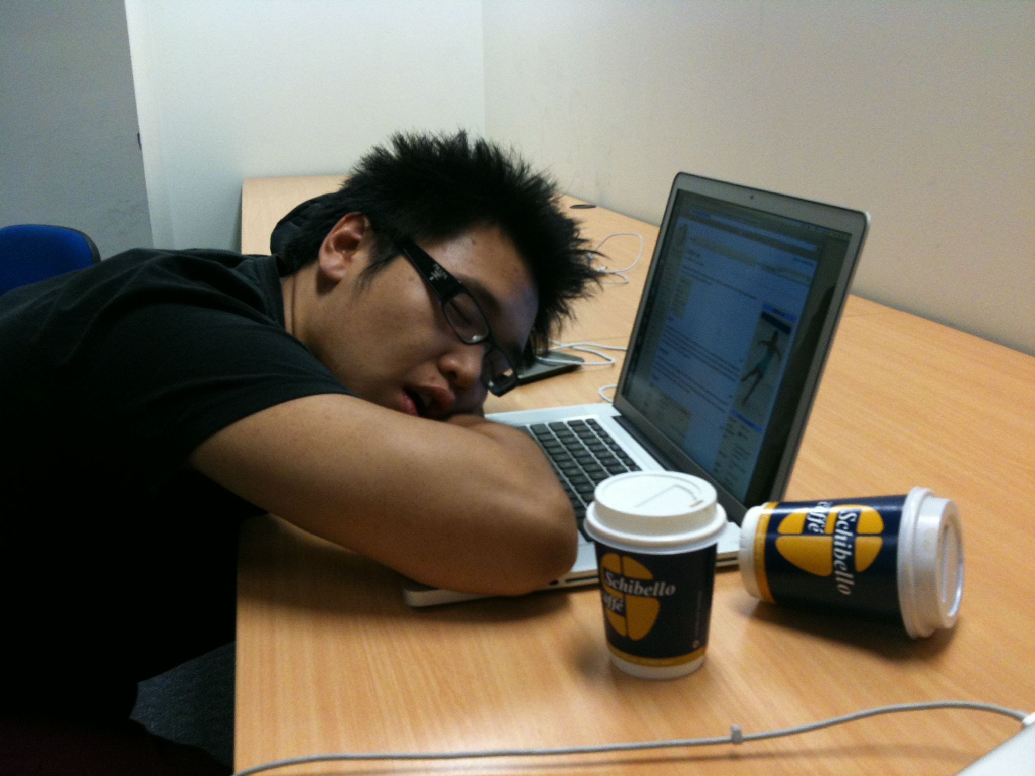 Sufferers of chronic fatigue syndrome experience tiredness and unrefreshing sleep.